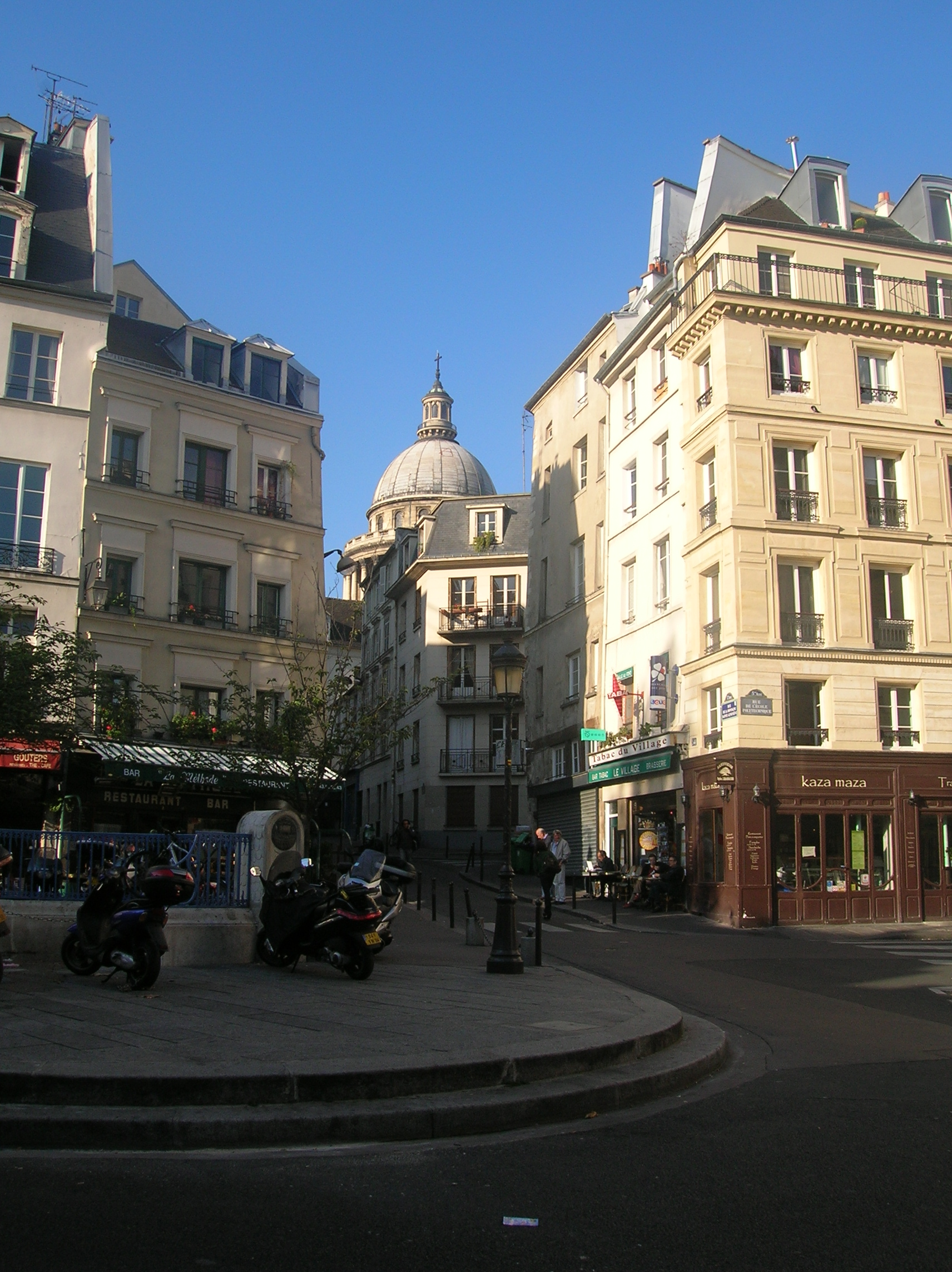 Rue de la Montagne-Sainte-Geneviève, Rue de l'École-Polytechnique (on the right) and Rue Descartes (in the foreground) in the Latin Quarter, Paris, France